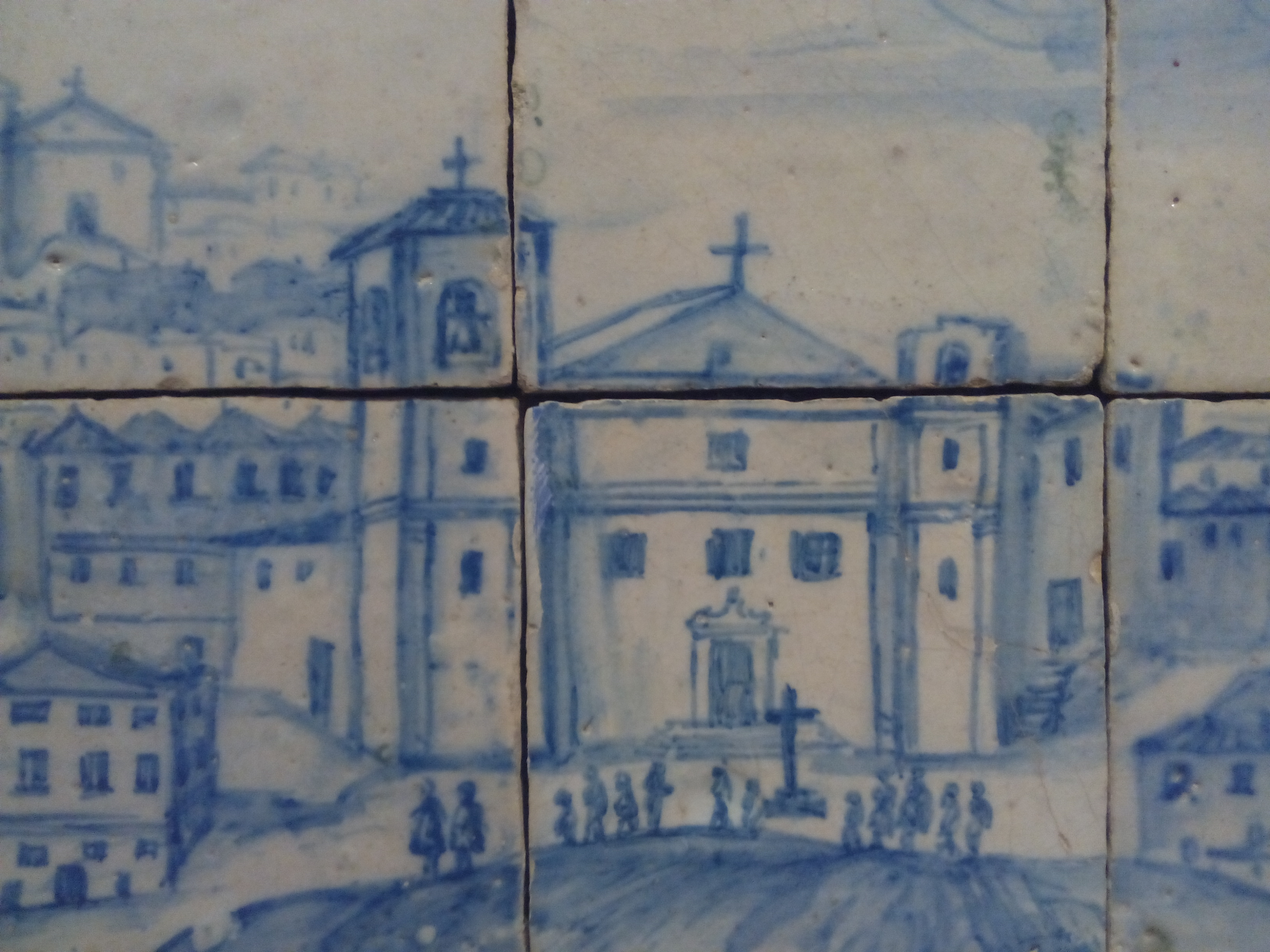 Depiction of the Church of Saint Catherine of the Mount Sinai (Igreja de Santa Catarina do Monte Sinai), in Lisbon, in an early 18th-century tile panel depicting a view of city. Currently in the National Tile Museum (Museu Nacional do Azulejo), in Lisbon, Portugal.